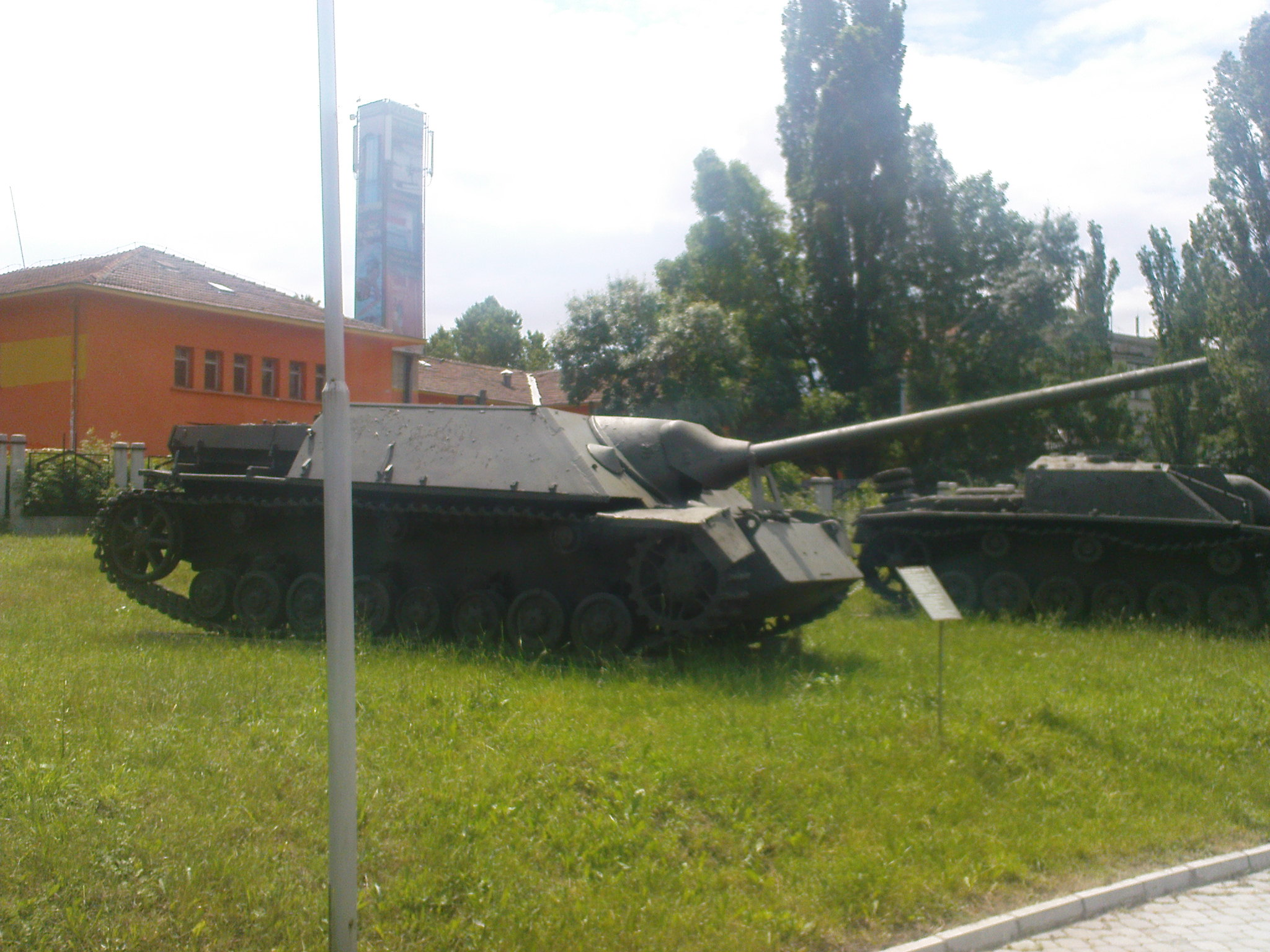 An extremely rare example of a German Jagdpanzer IV/70(V) , National Museum of Military History, Sofia